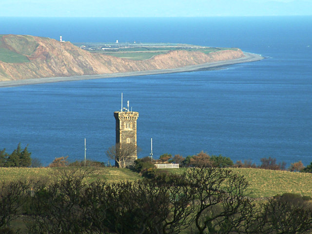 The Albert Tower - Isle of Man near town of Ramsey. Photographed from the Gooseneck on the Mountain Road, with the Bride hills in the distance. The tower is made of granite and rises 45 feet (14 m) high. The tower commemorates the visit of Queen Victoria and Prince Albert on the 20th of September 1847. Whilst the Queen stayed on board the Royal Yacht, Albert came ashore and climbed to the top of the hill.